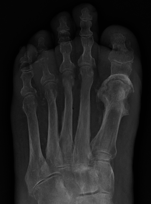 Osteomyelitis of the 1st MTP. This is an edited version of the source image made for use in the "Anatomist" iOS and Android app and shared here under the terms of the source image's Share Alike Creative Commons license.